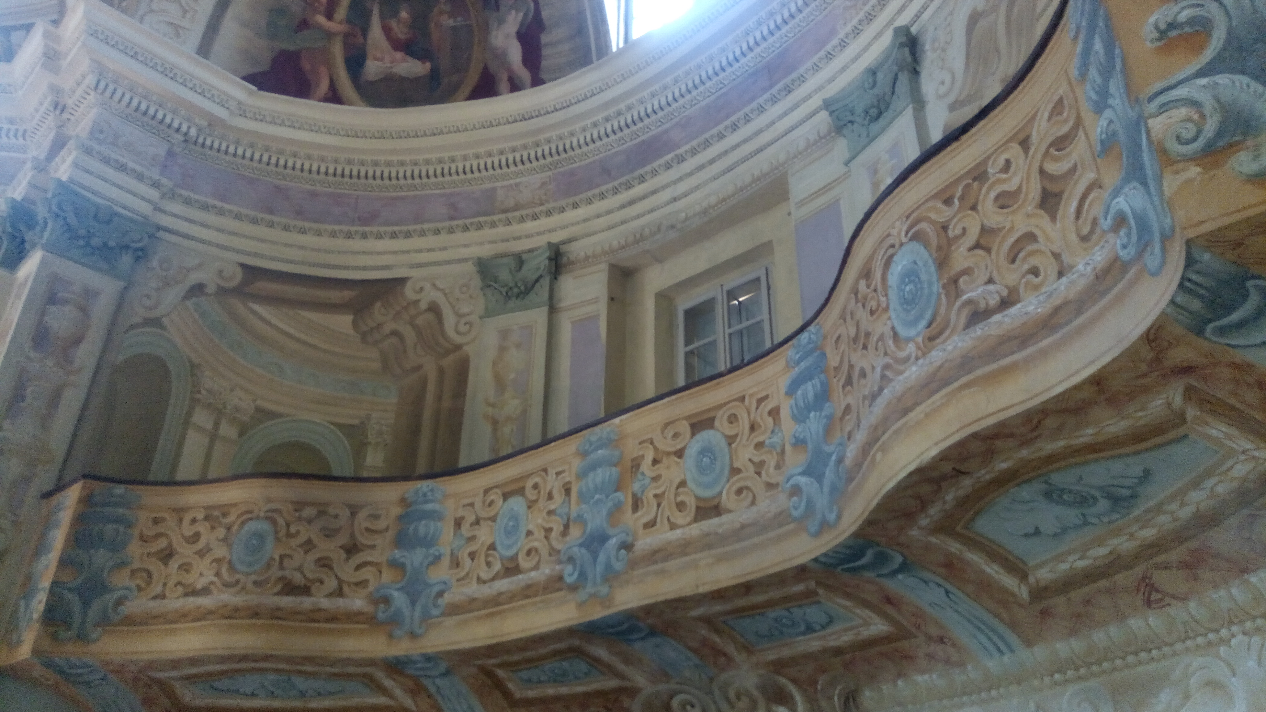 Serraglio Church